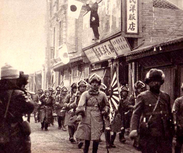 Japanese troops entering Chinchow (Chin County = Chin-hsien, present-day: Jinzhou)